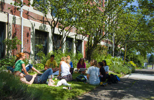 NCNM students outdoors